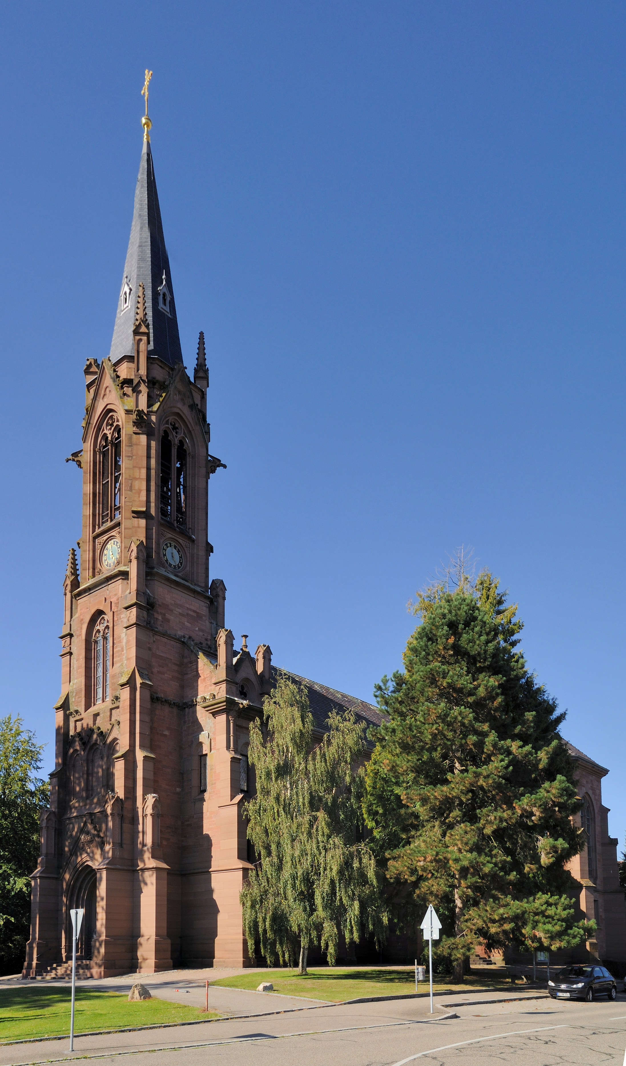 Schopfheim: Evangelical City Church